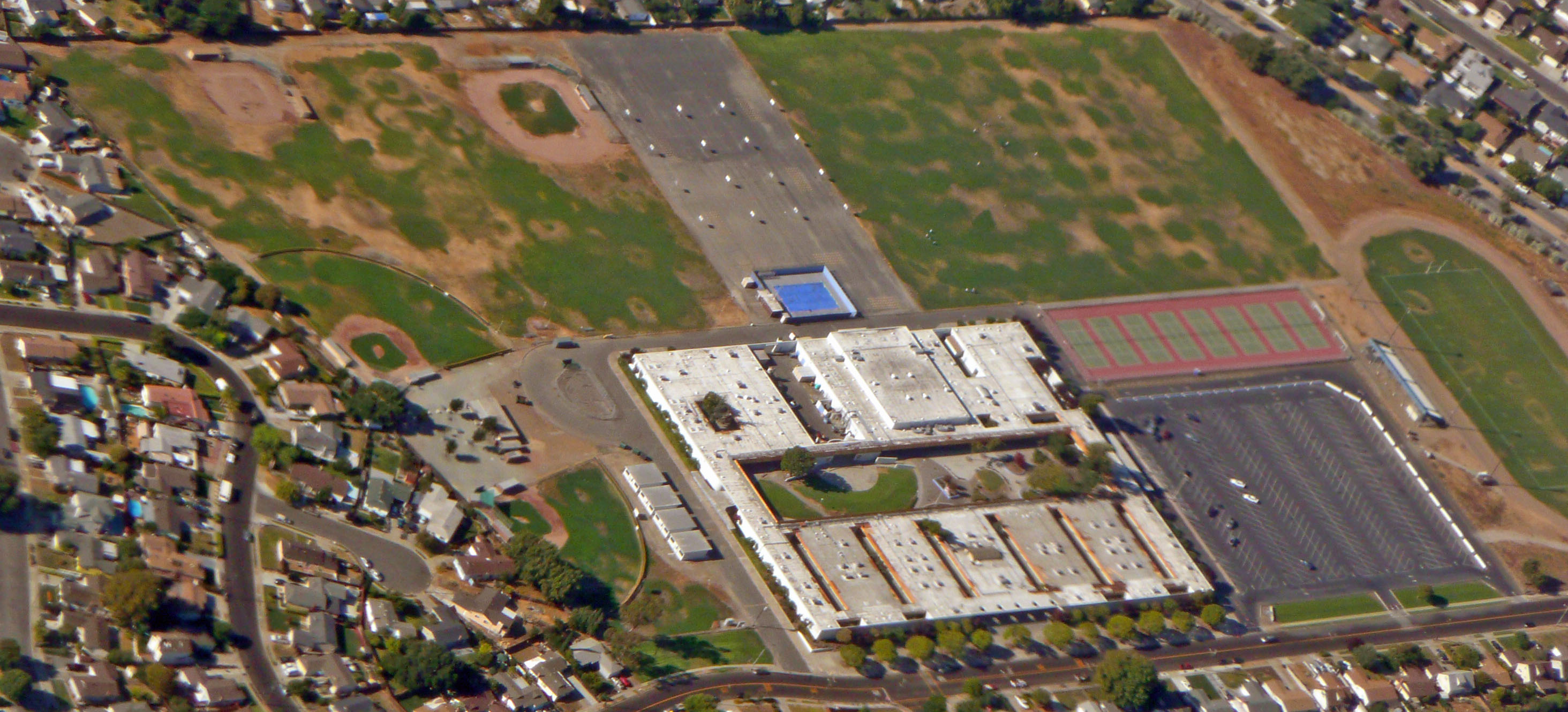 Aerial photo of Newark Junior High School in Newark (Alameda County), California